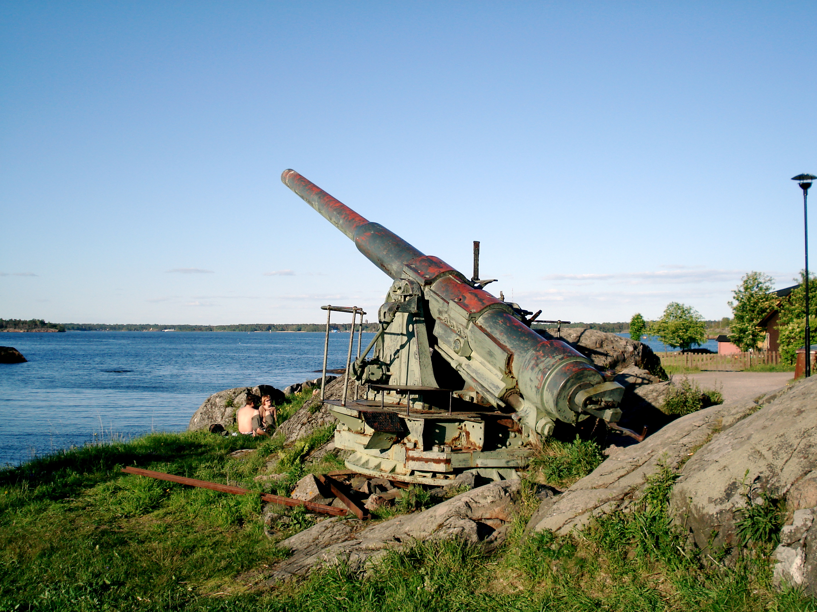 Russian 203 mm 50 calibre naval gun model Vickers. Developed by the Obukhov factory, based on Vickers 120 mm gun. Later used as coastal artillery, now displayed in Suomenlinna fortress, Helsinki. Manufactured by Obukhov factory in 1909, according to stamp on the gun.